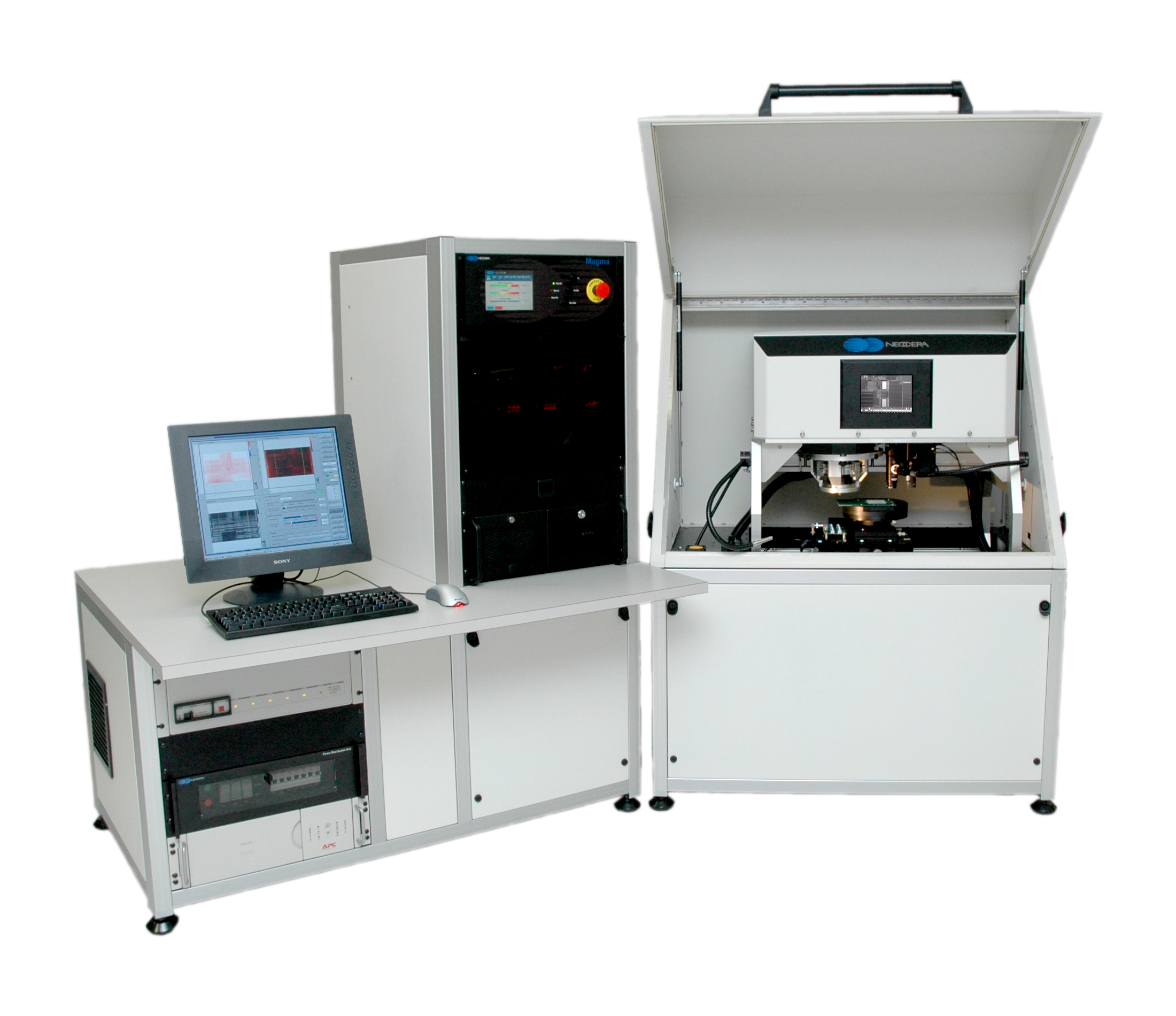 Magma C30 Scanning SQUID Microscope